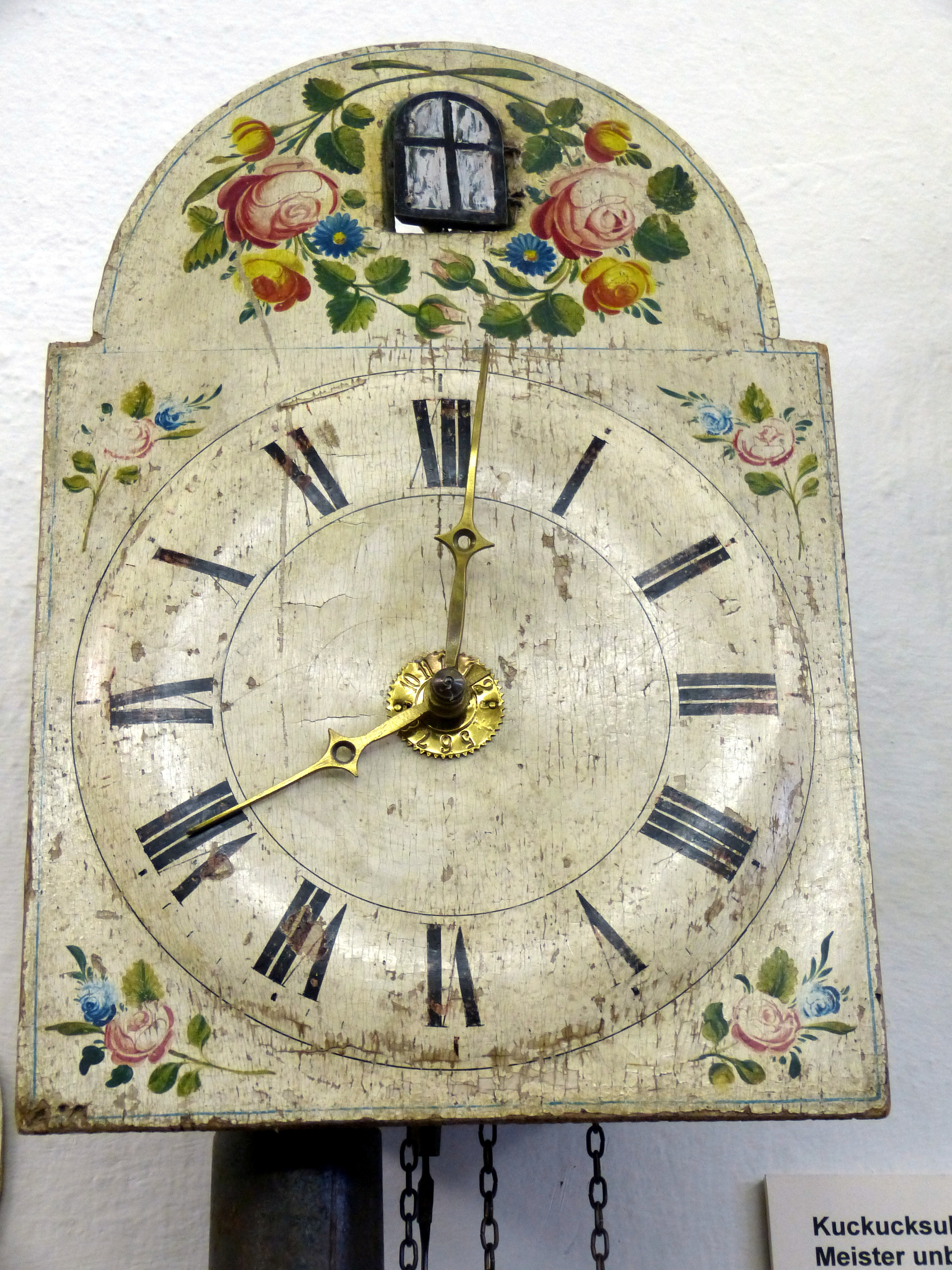 Eggenburg ( Lower Austria ). Krahuletz-Museum: Early cuckoo clock ( 1790s )